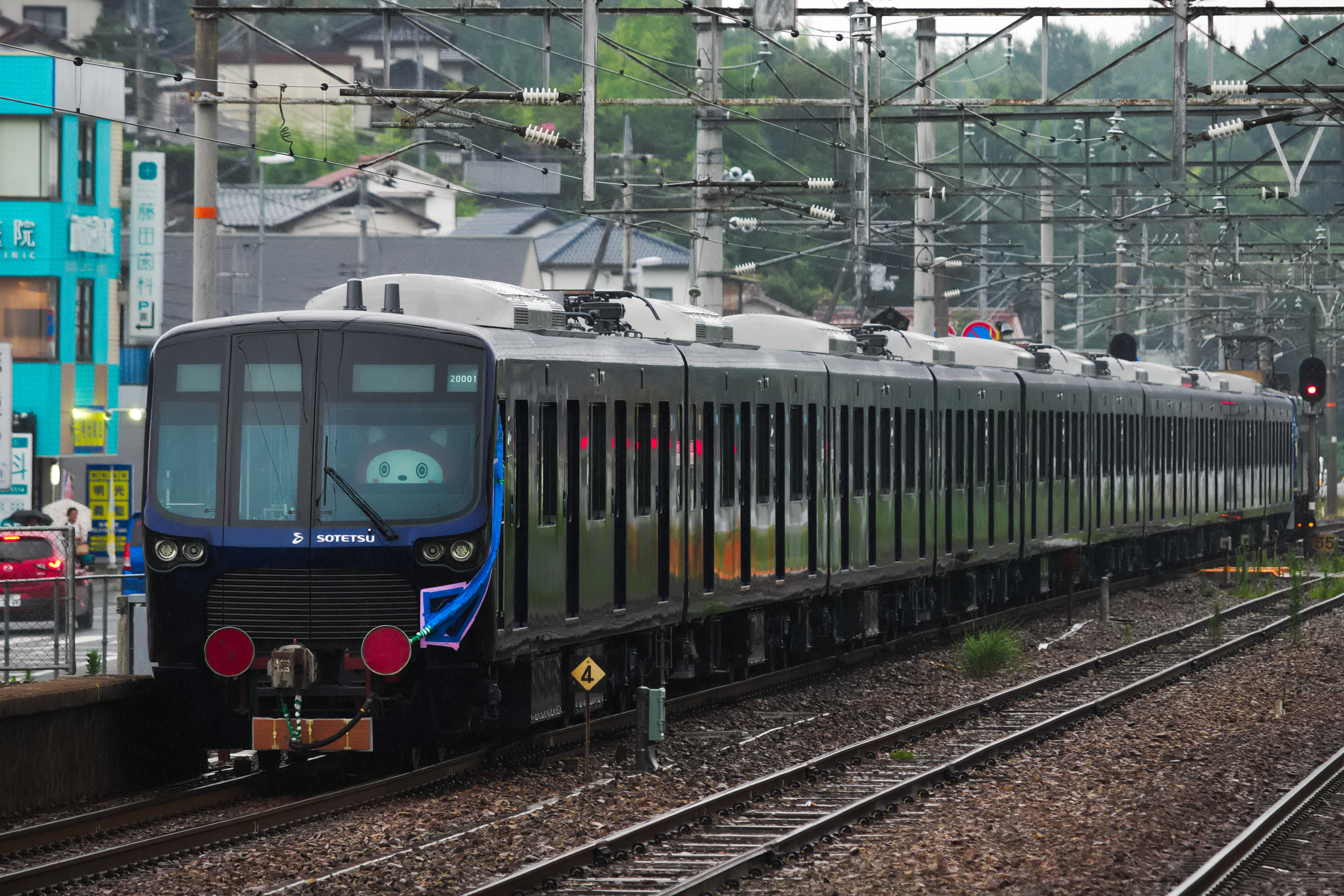 The first Sotetsu 20000 series EMU on delivery from the Hitachi factory in Yamaguchi Prefecture, Japan